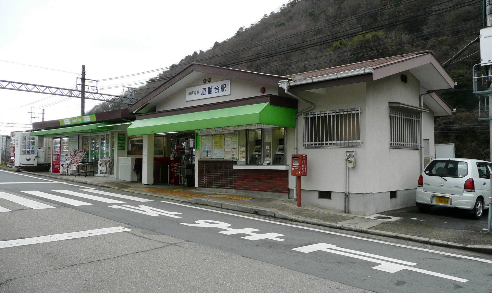 Kobe Electric Railway Karatodai Station